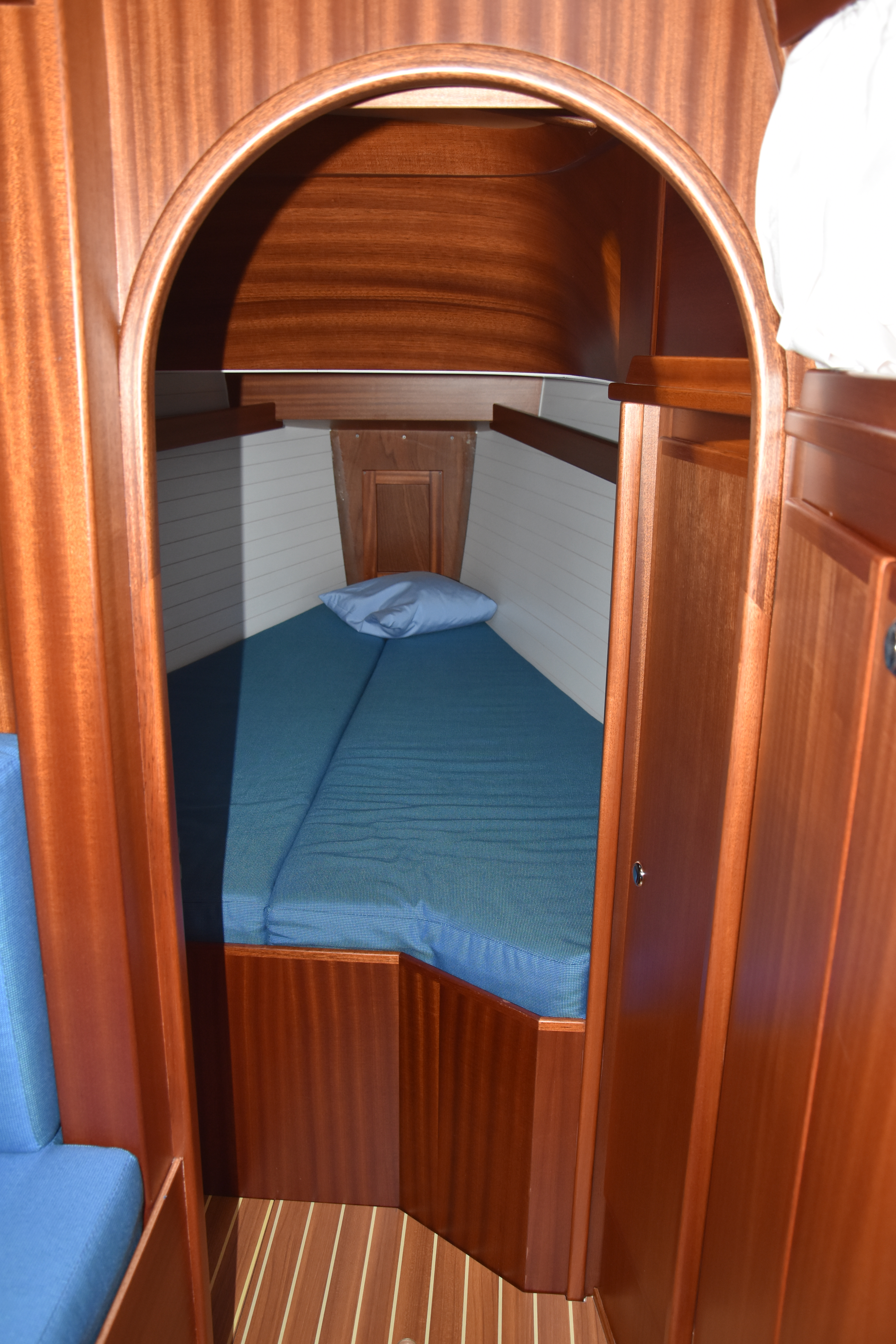 Double berth in the bow of a small sailboat